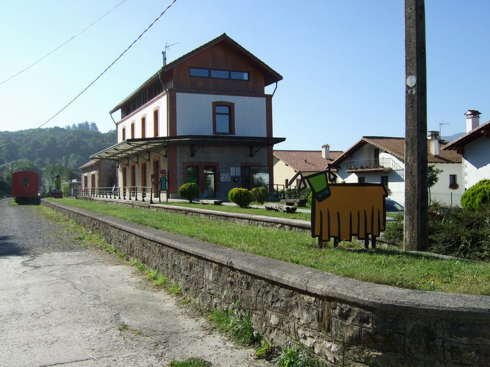 Photo of former railway station of Lukunberri, taken by Dr. Karl Schlemmer at September 6th, 2007